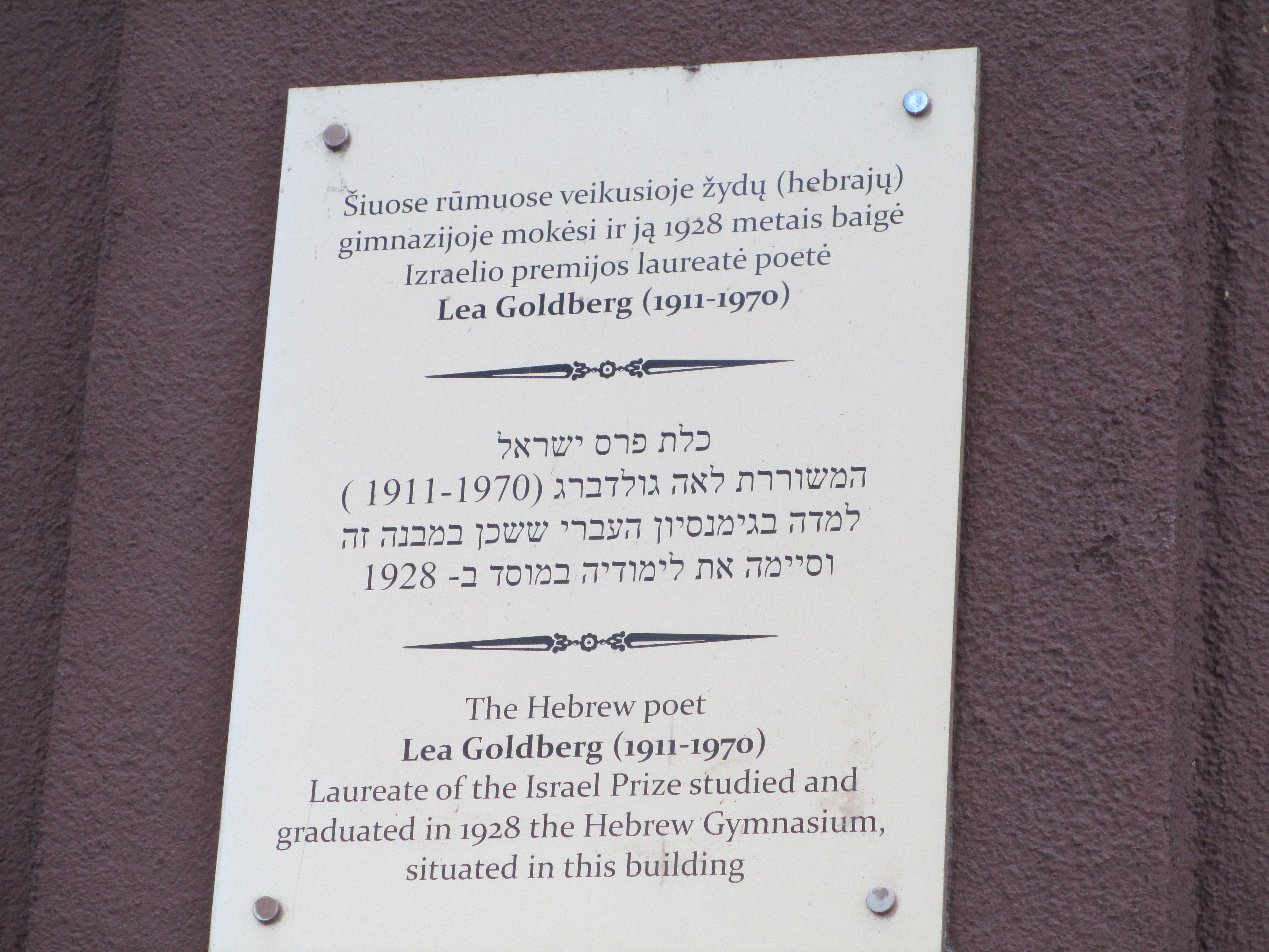 memorial plaque to the poet leah goldberg in Kaunas